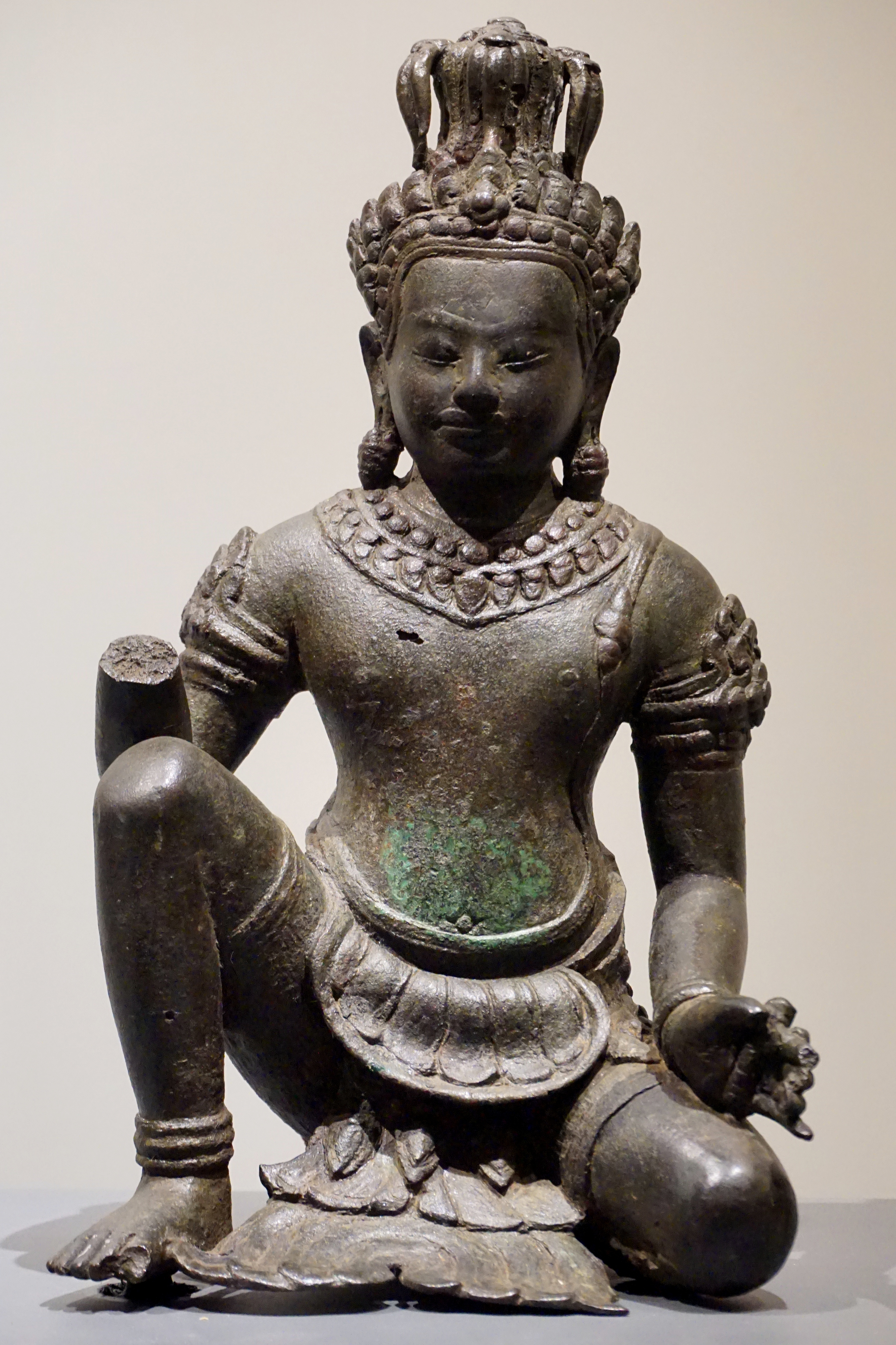 Photograph from the National Museum, Bangkok, Thailand